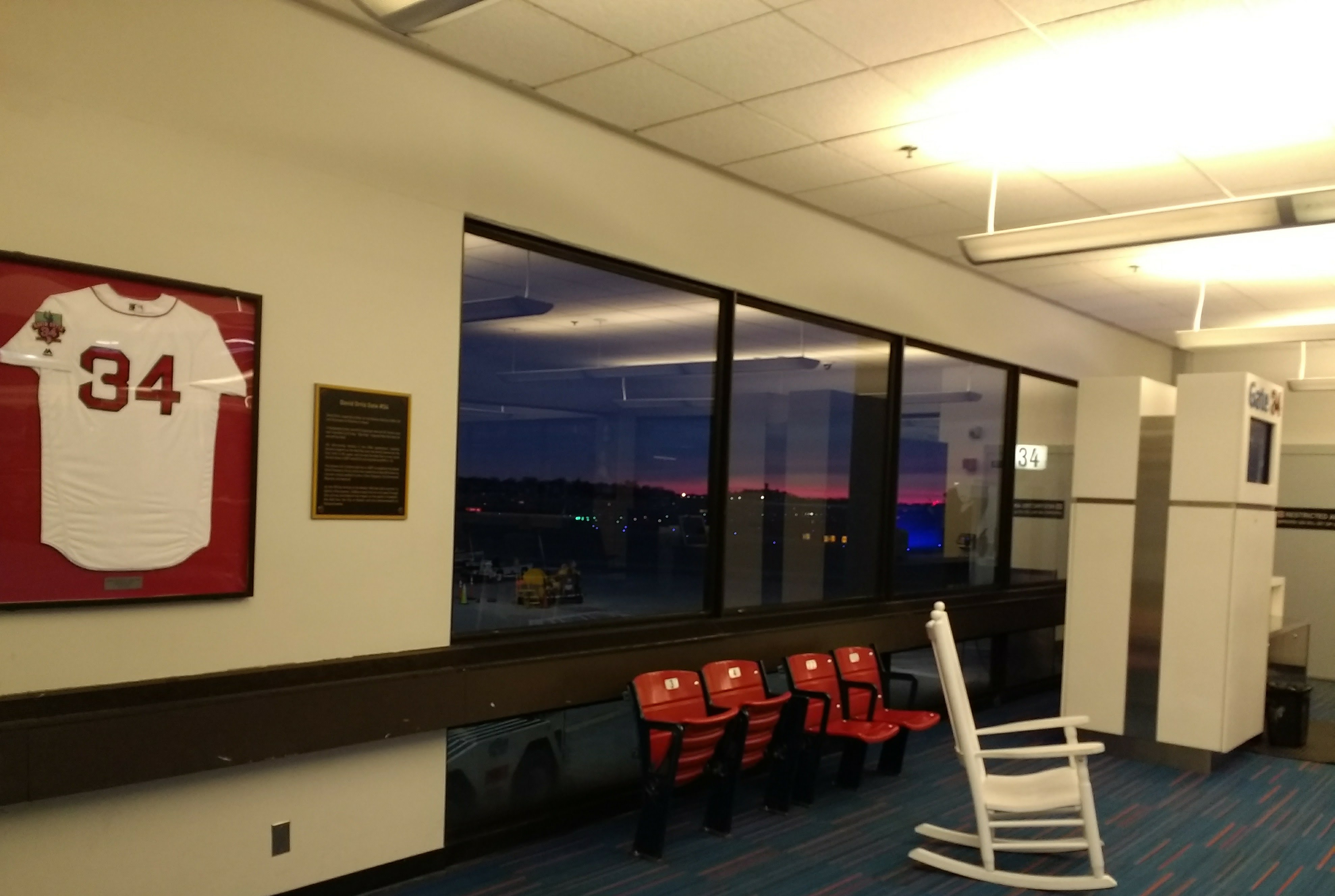 Gate 34 at Logan Airport in Massachusetts. JetBlue Gate 34 is dedicated to the Red Sox designated hitter, David Ortiz.